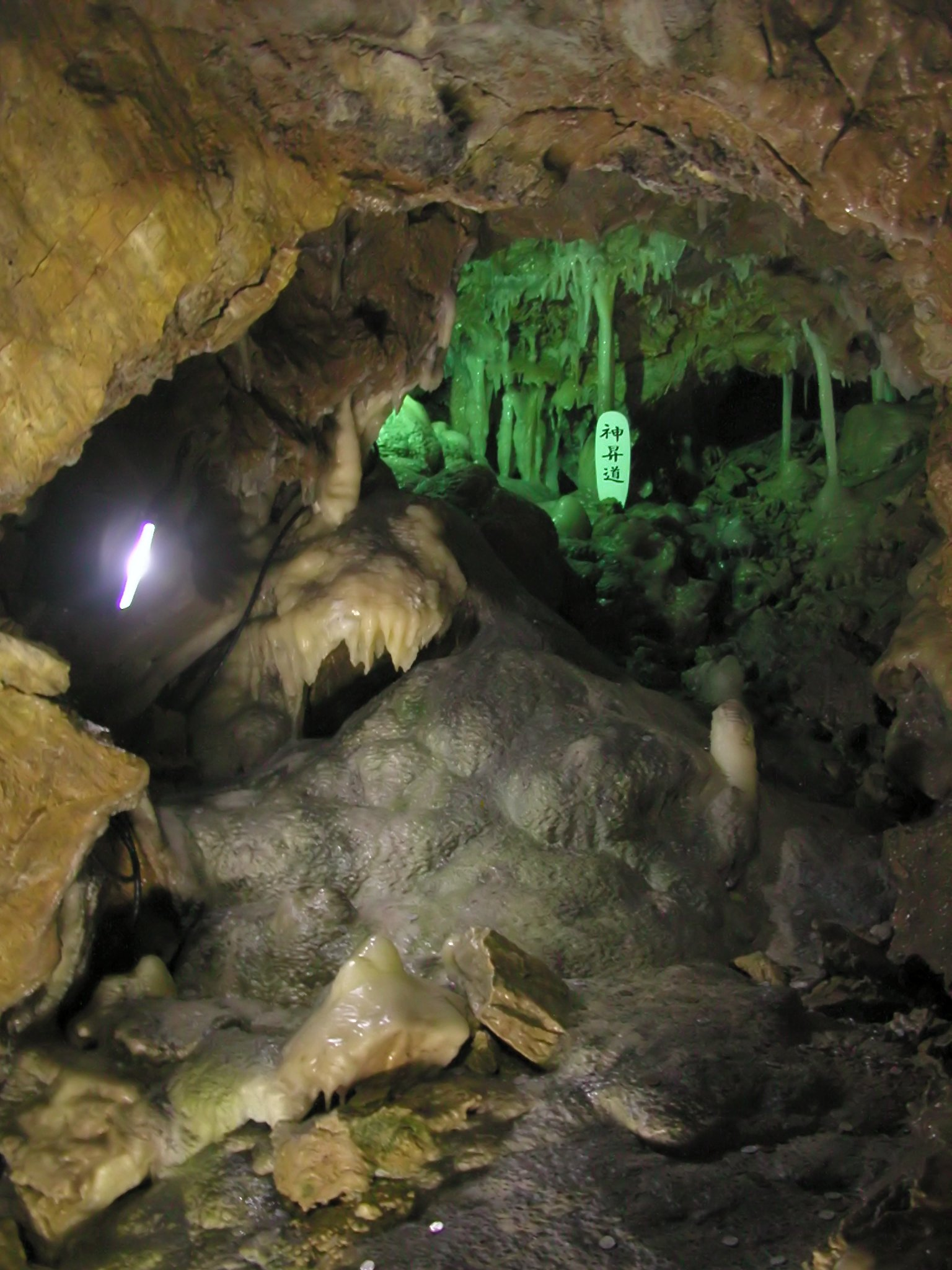 Toma shonyudo (Toma Limestone Cave) in Toma Town, Hokkaido, Japan